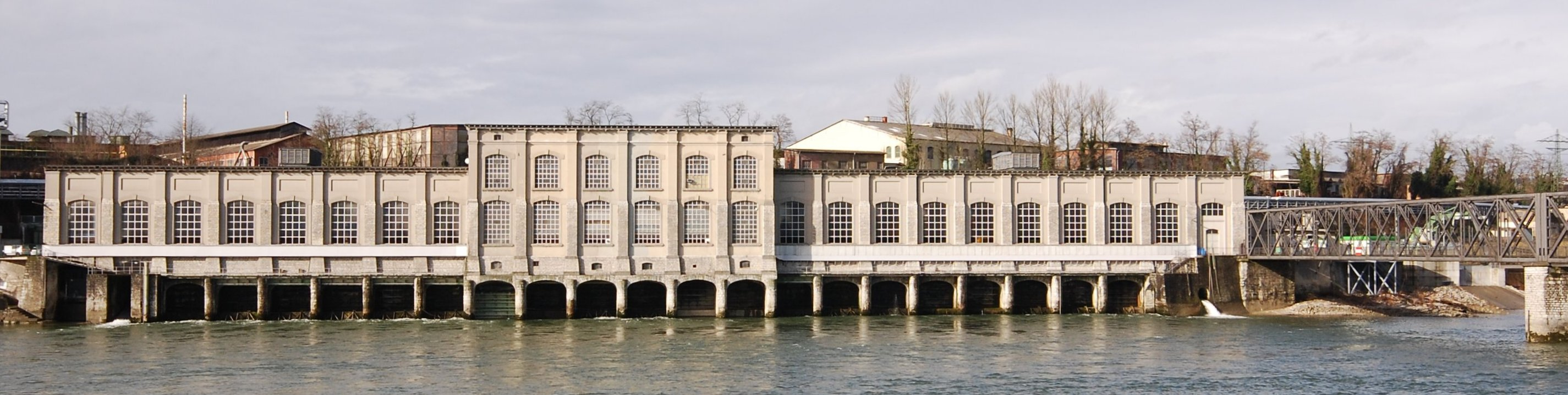 Old hydroelectric power plant in Rheinfelden